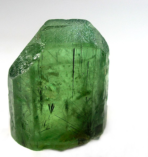 Forsterite (Var.: Olivine), Ludwigite Locality: Sapat Gali (Soppat; Suppat; Sumpat), Manshera, Naran-Kagan Valley, Kohistan District, North-West Frontier Province, Pakistan (Locality at ) A fat, and exceptionally well-terminated peridot crystal! Peridot crystals of size are usually somewhat rounded, and to get a crystal of this gemmy, transparent quality, so thick, and with such a wonderfully basal termination, is very uncommon. As an added bonus, it is included by sharp, vertical, crystals of the rare species Ludwigite , which makes for a stark contrast. 2.8 x 2 x 1.1 cm